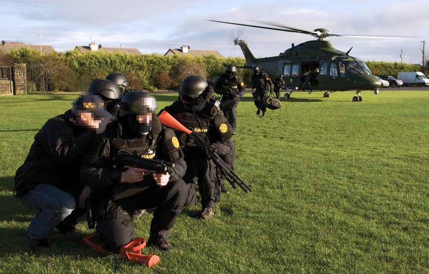 Free use image of an Irish Garda Emergency Response Unit (ERU) tactical team disembarking from an Irish Air Corps AgustaWestland AW139 helicopter at an undisclosed location in County Dublin, Republic of Ireland.